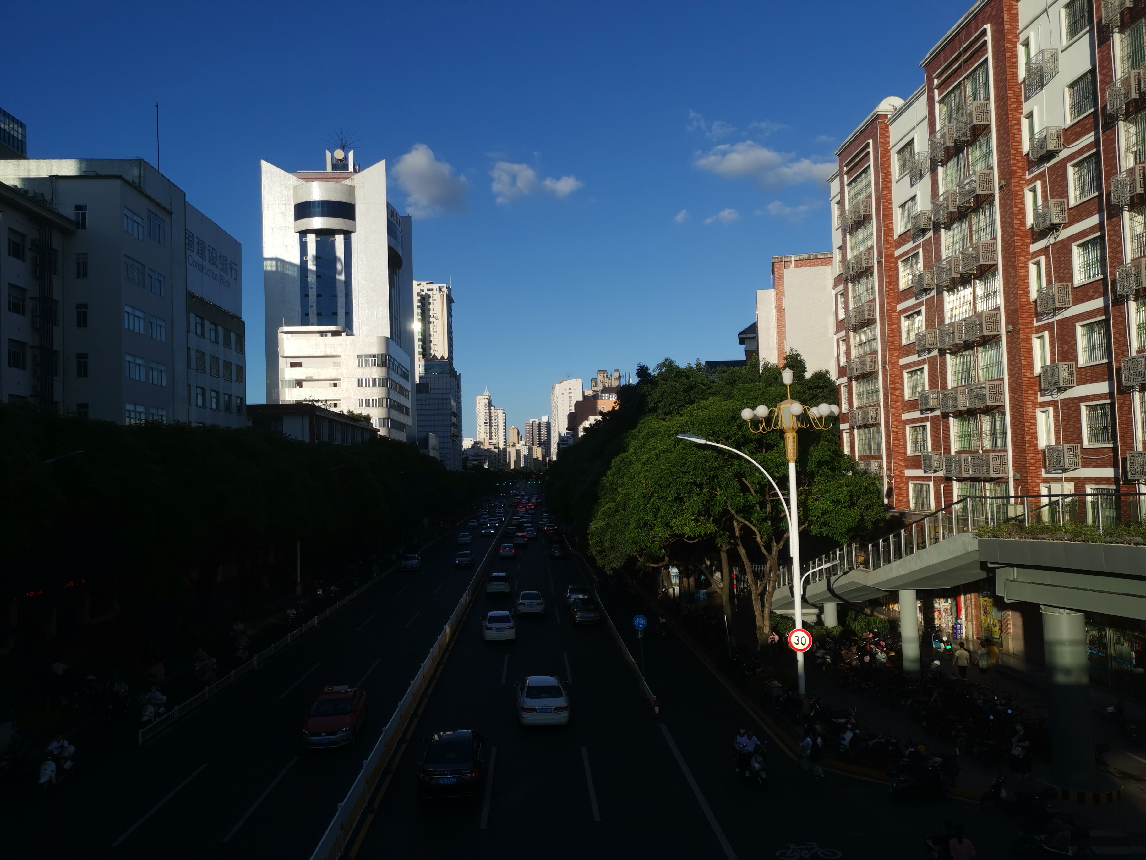 Shengli East Road, Zhangzhou,Fujian, China